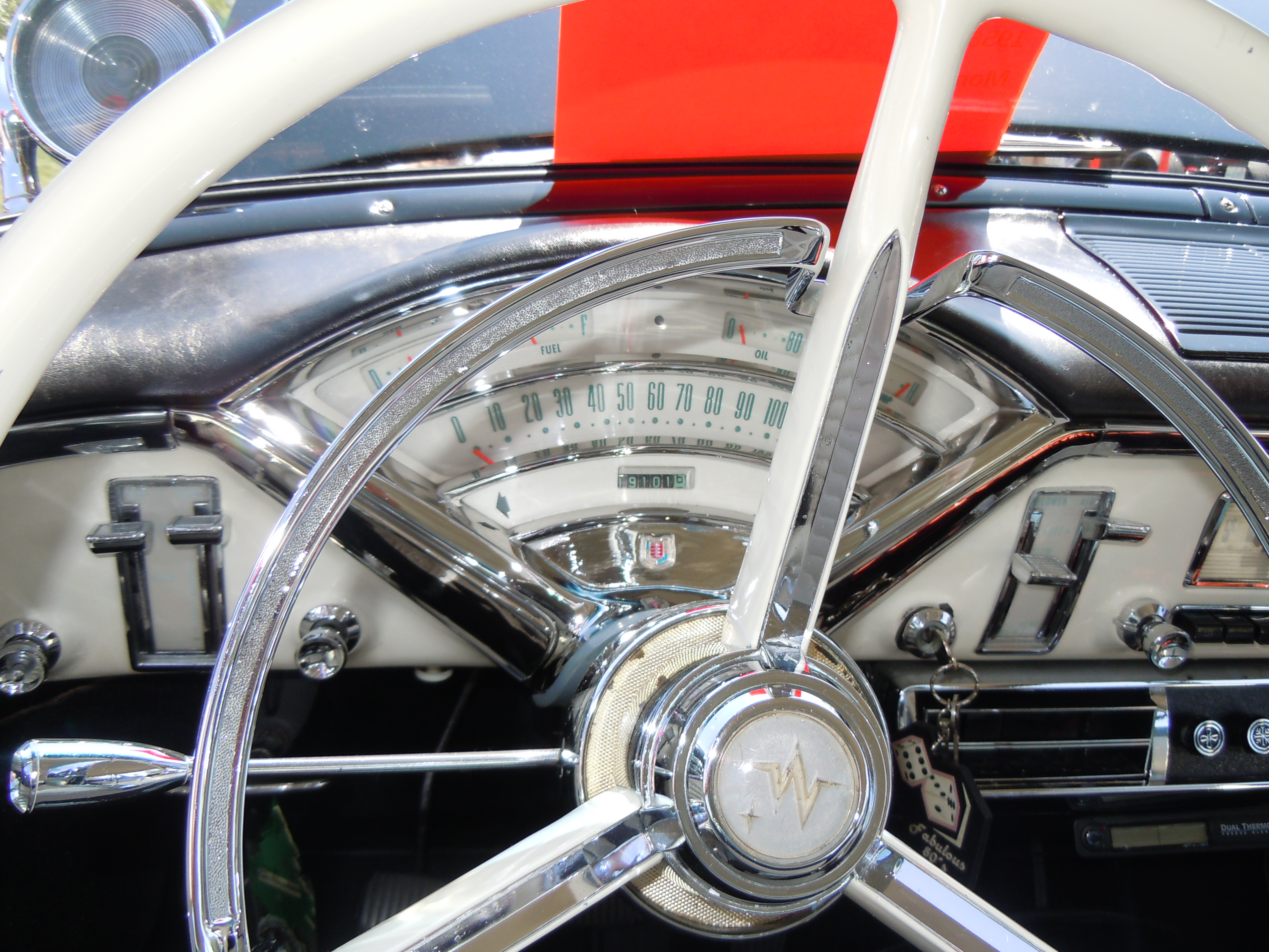 The 3-tier dash of a 1956 Mercury Montclair